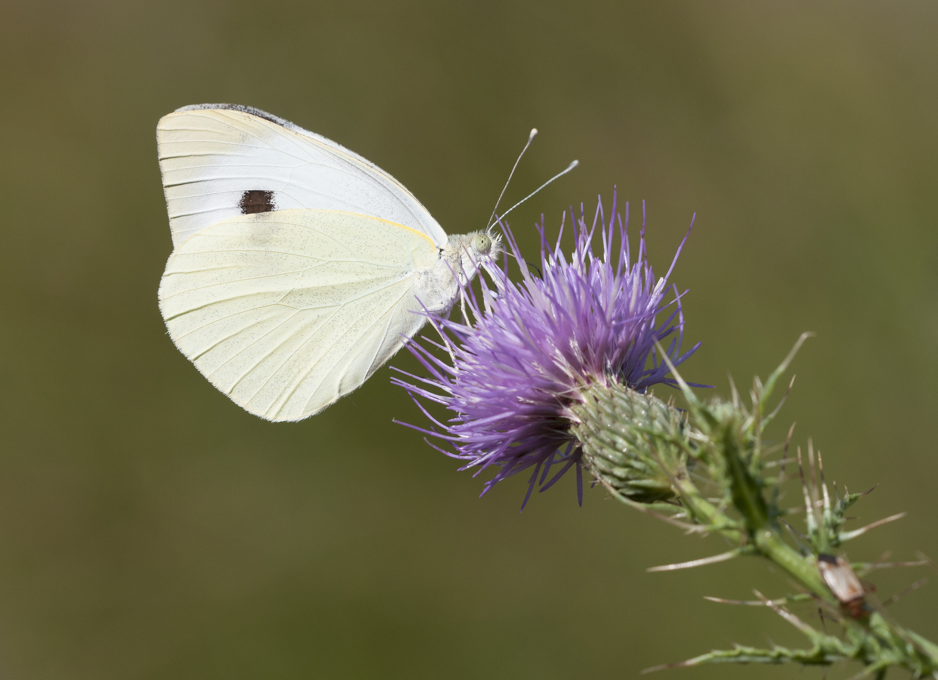 A female Large Cabbage White (Pieris brassicae), nectaring on a thistle flower. Çamardı, Niğde - Turkey.